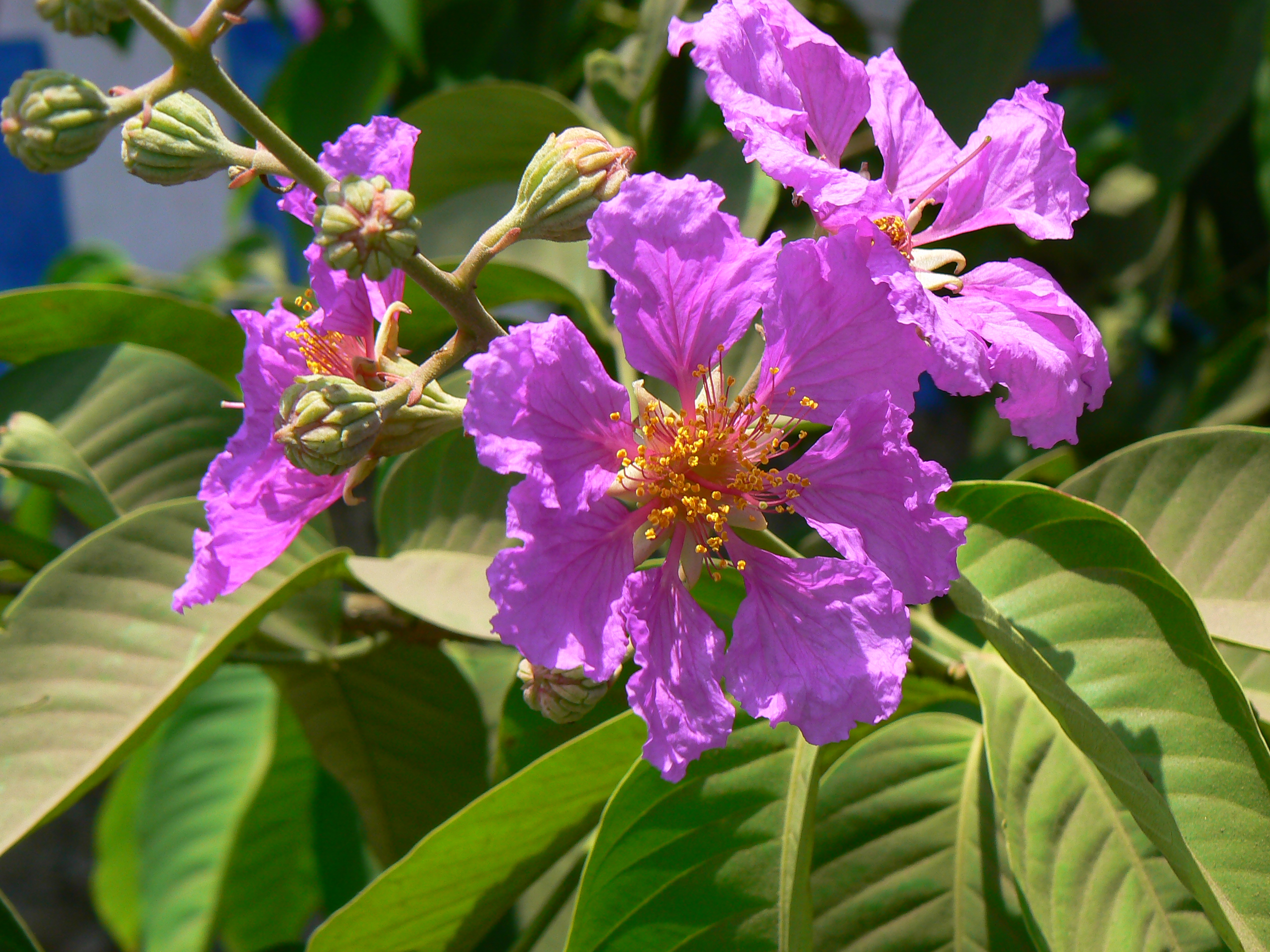 Lythraceae (Lythrum, or loosestrife family) » Lagerstroemia speciosa (L.) Pers. la-ger-STROO-mee-uh -- named for Magnus von Lagerström, Swedish naturalist... Dave's Botanary spee-see-OH-suh -- showy or spectacular ... Dave's Botanary commonly known as: giant crape-myrtle, pride of India, queen's crape-myrtle, queen's flower • Assamese: আজাৰ ajara • Bengali: জারুল jarul • Gujarati: જારૂલ jarul, મોટો ભોંડારો moto bhondaro, તામન taman • Hindi: जारल jaral, जरुल jarul • Kannada: ಹೊಳೆ ದಾಸವಾಳ hole dasavala, ಹೊಳೆದಚಲ್ಳ holedachalla, ಮರುವ maruva, ನಂದಿ nandi • Konkani: सोटुलारी sotulari • Malayalam: അടന്പു adambu, മണിമരുത് manimaruth, പൂമരുത് puumaruth • Manipuri: jarol • Marathi: जारूळ jarul, मोठा बोंडारा motha bondara, ताम्हण tamhan • Mizo: chawn-pui, thla-do • Tamil: கதலி kadali, பூமருது pu-marutu • Telugu: సొగసులచెట్టు sogasulachettu • Urdu: جرول jarul Native to: tropical southern Asia; widely cultivated References: Flowers of India • NPGS / GRIN • Top Tropicals • Dave's Garden • Wikipedia